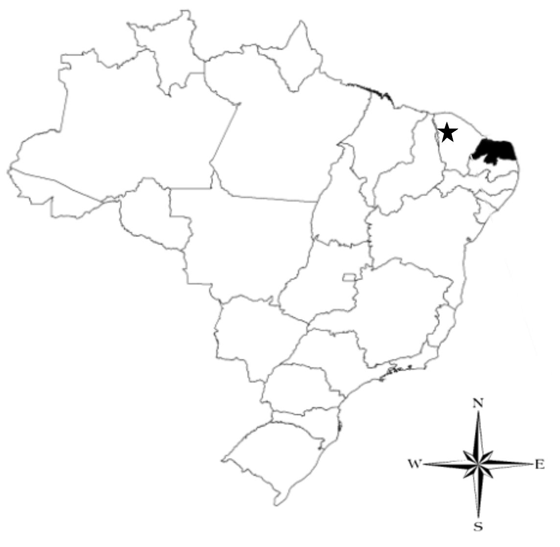 Geographic distribution records of Rowlandius ubajara sp.nov. (star) and R. potiguar sp.nov. in northeastern Brazil.